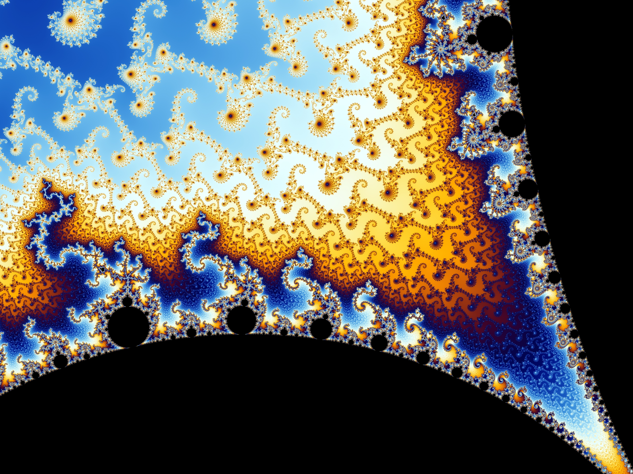 Partial view of the Mandelbrot set. Step 9 of a zoom sequence: The "seahorse valley" of the satellite. All the structures from the image of zoom step 1 reappear. Coordinates of the center: Re(c) = -.743,644,099,61, Im(c) = .131,826,046,88 Horizontal diameter of the image: .000,000,662,08 Magnification relative to the initial image: 4,647,300 Created by Wolfgang Beyer with the program Ultra Fractal 3. Uploaded by the creator.